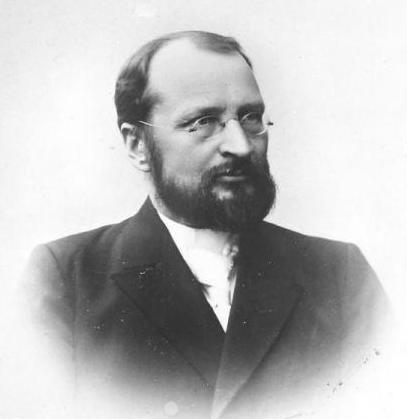 The Finnish lichenologist Edvard Vainio (1872–1929)